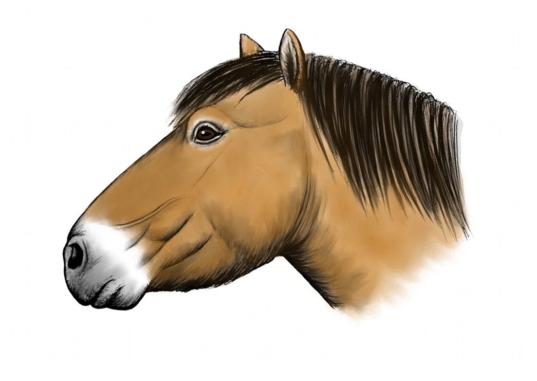 Life restoration of the Yukon wild horse, Equus ferus lambei.